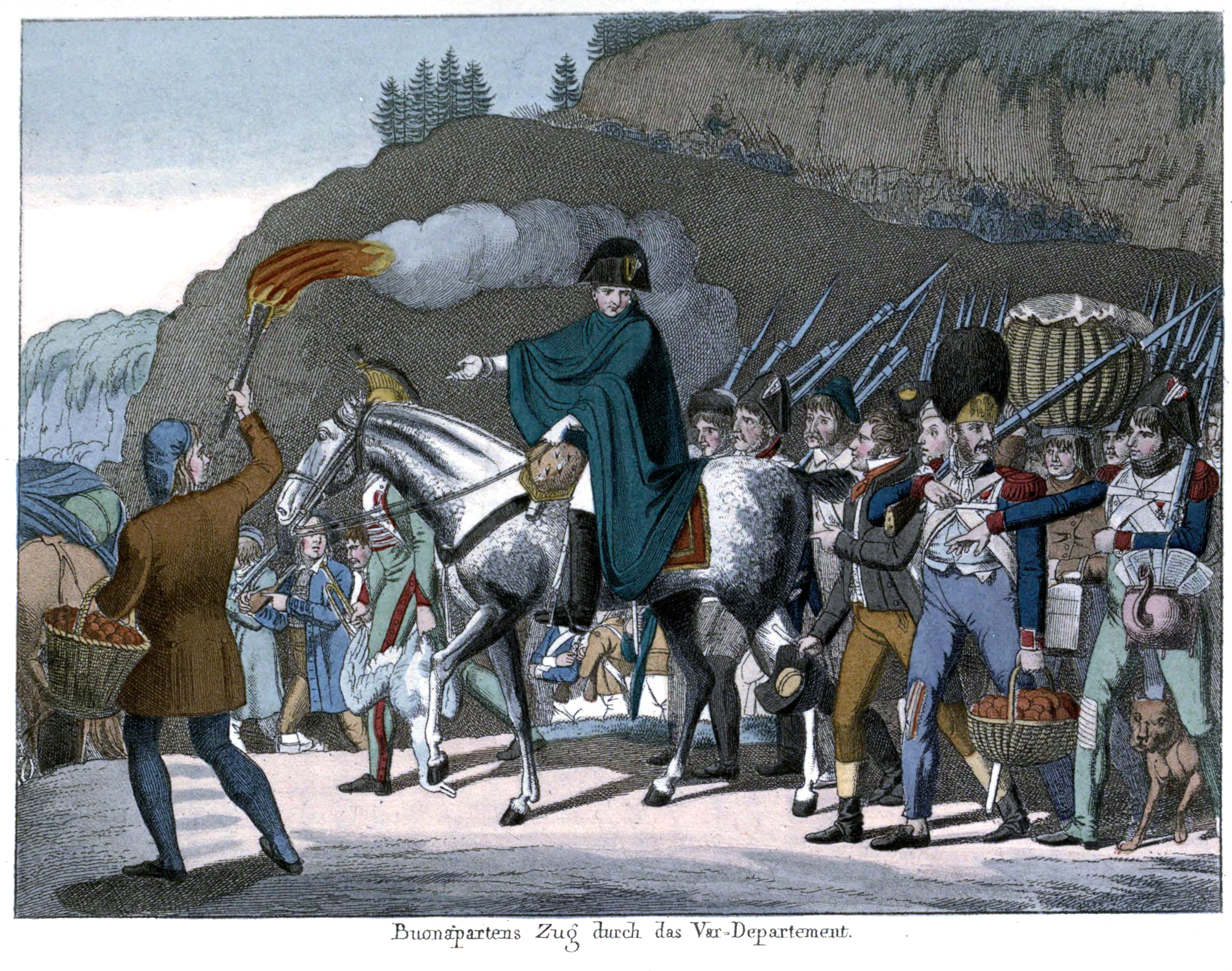 Colored engraving of “Bonaparte’s March through the Var Department”